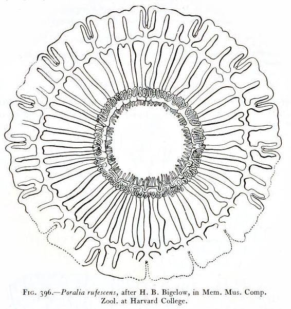 Poralia rufescens after H.B.Bigelow, in Mem. Mus. Comp. Zool., at Harward College